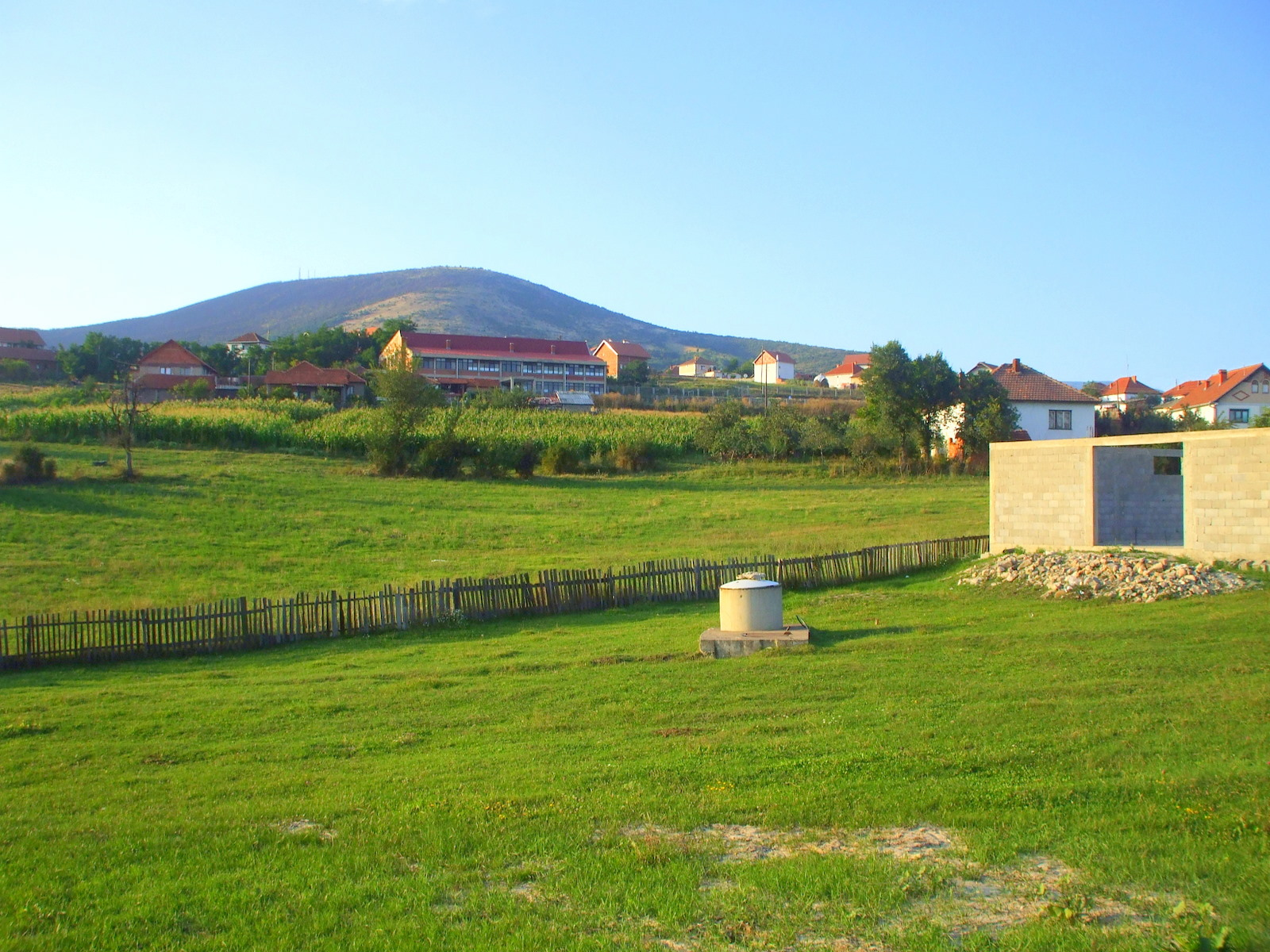 Kqiq